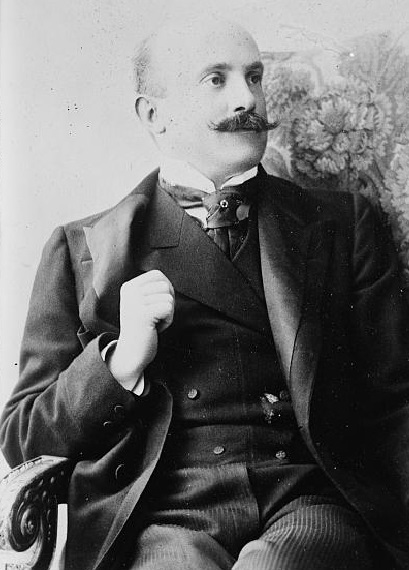 French Prime Minister Joseph Caillaux (1863-1944)